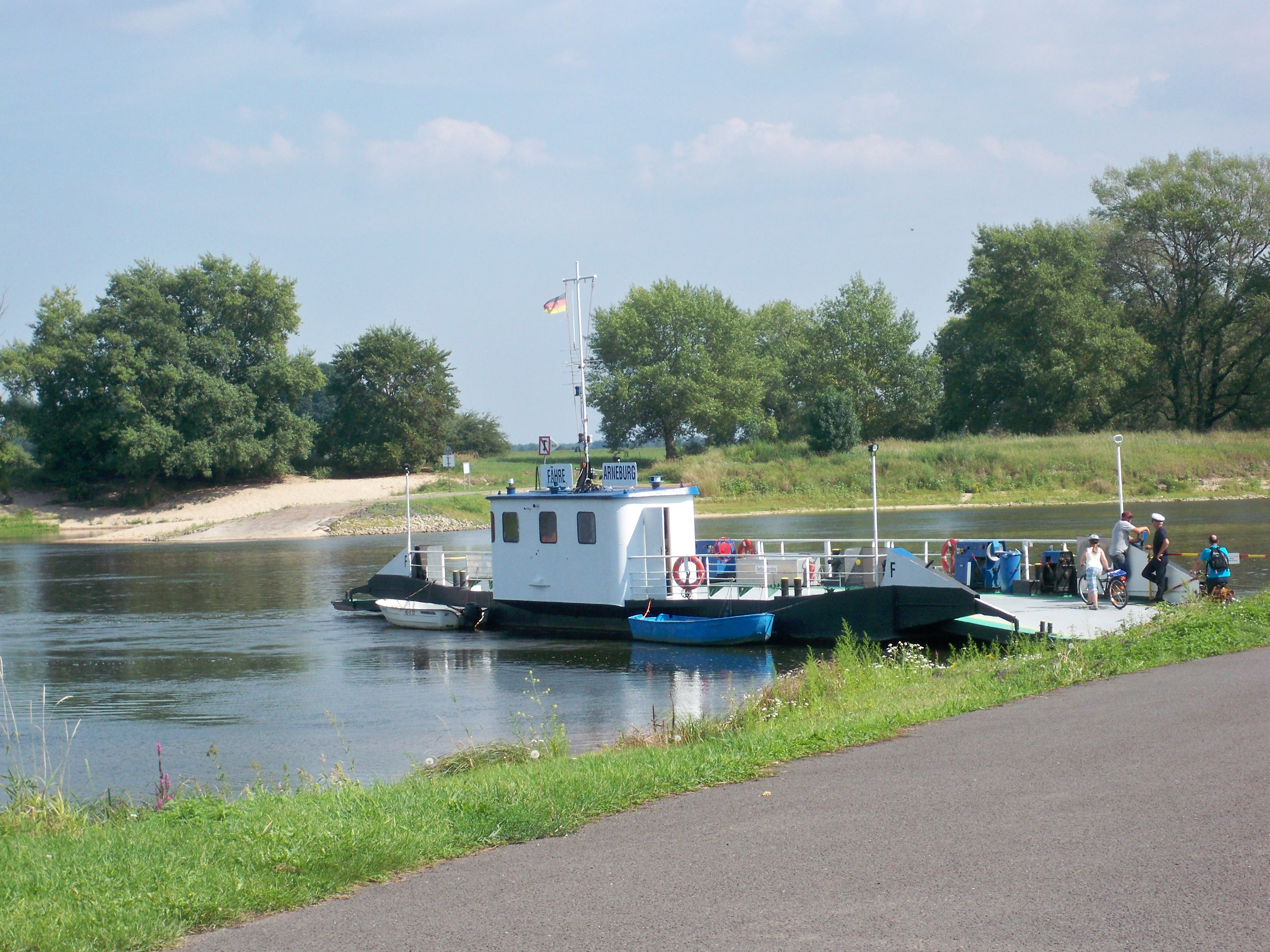 Arneburg, Saxony-Anhalt, ferry across river Elbe, seen from western bank